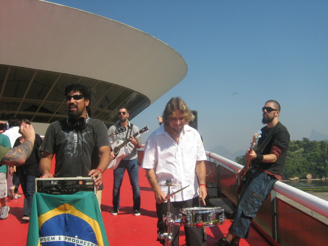 A photo of the recording of the newest videoclip for the album O Retorno de Saturno.